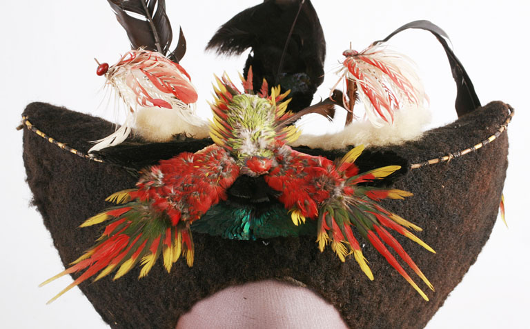 A Warrior's headdress in the permanent collection of The Children’s Museum of Indianapolis.